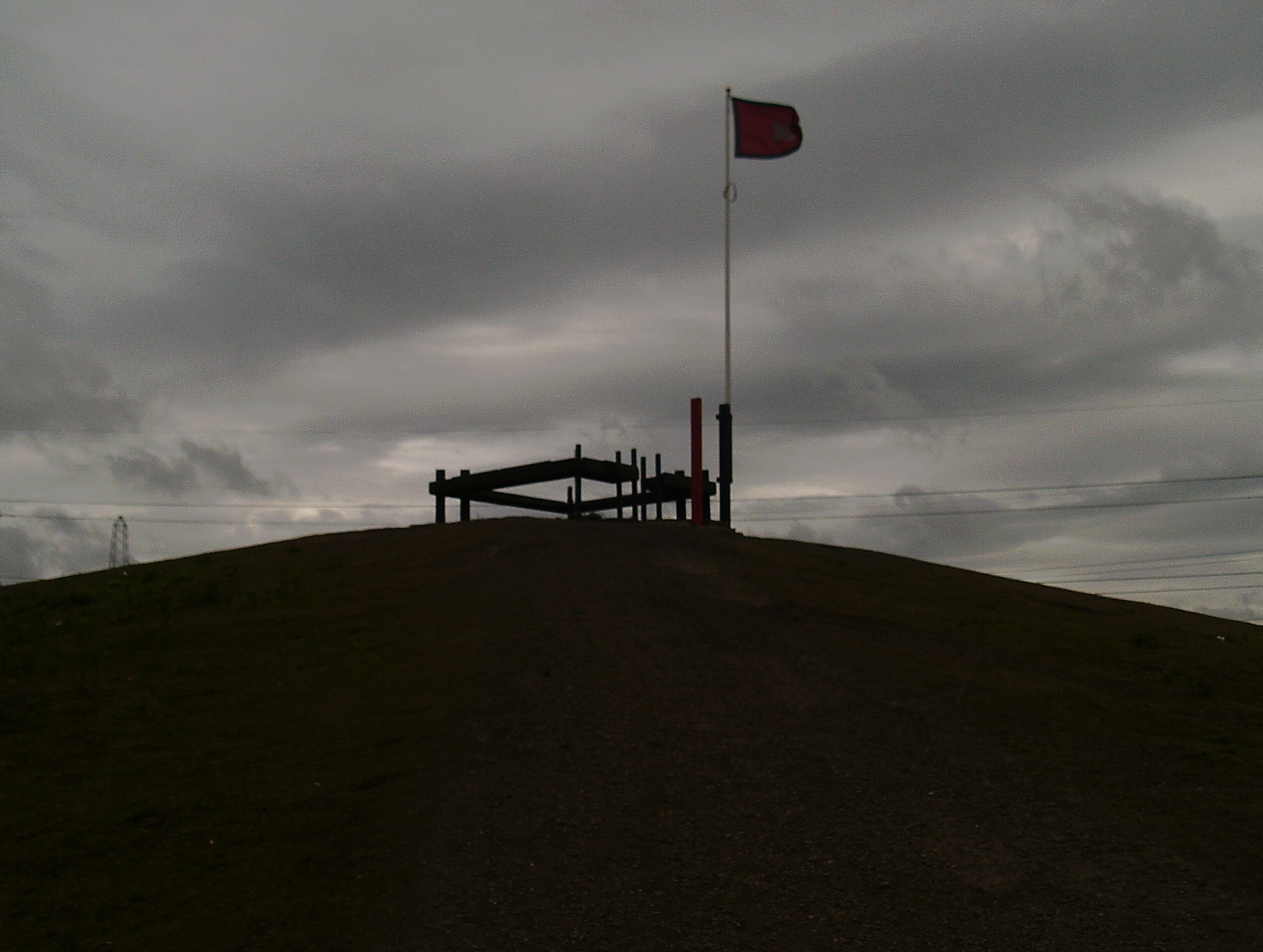 Monument atop a former spoil heap commemorating the Battle of Prestonpans.